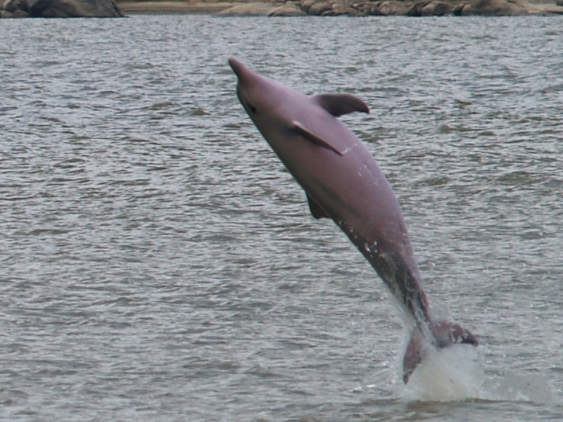 Delfin del Orinoco